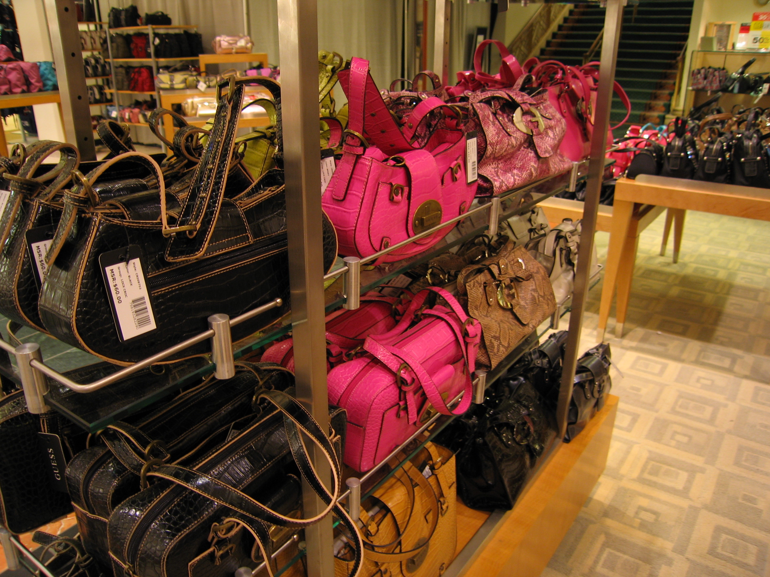 Purse Shopping at Bon Macys